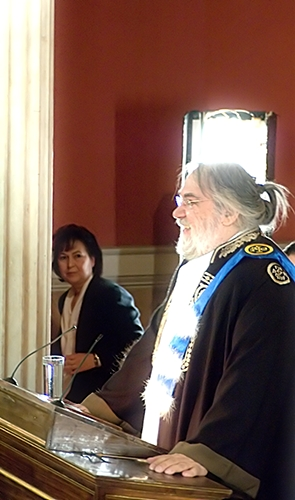 Vangelis Papathanassiou, Horonary Doctor of National and Kapodistrian University of Athens. This picture at the same time shows the affection, and the affecting impact on Vangelis.